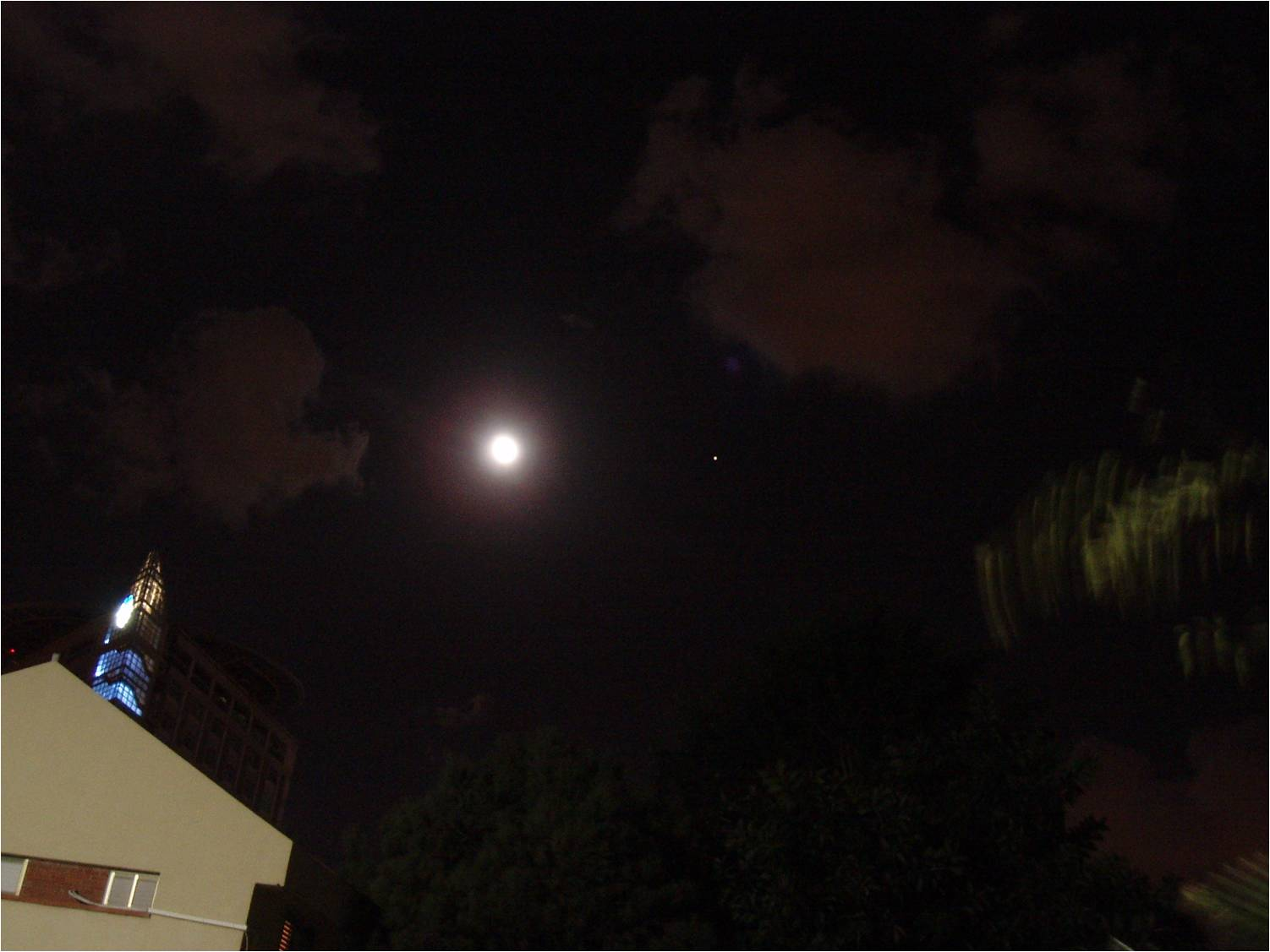 The moon and Mars in August 27th 2005, it is easy to see they are not the same size.